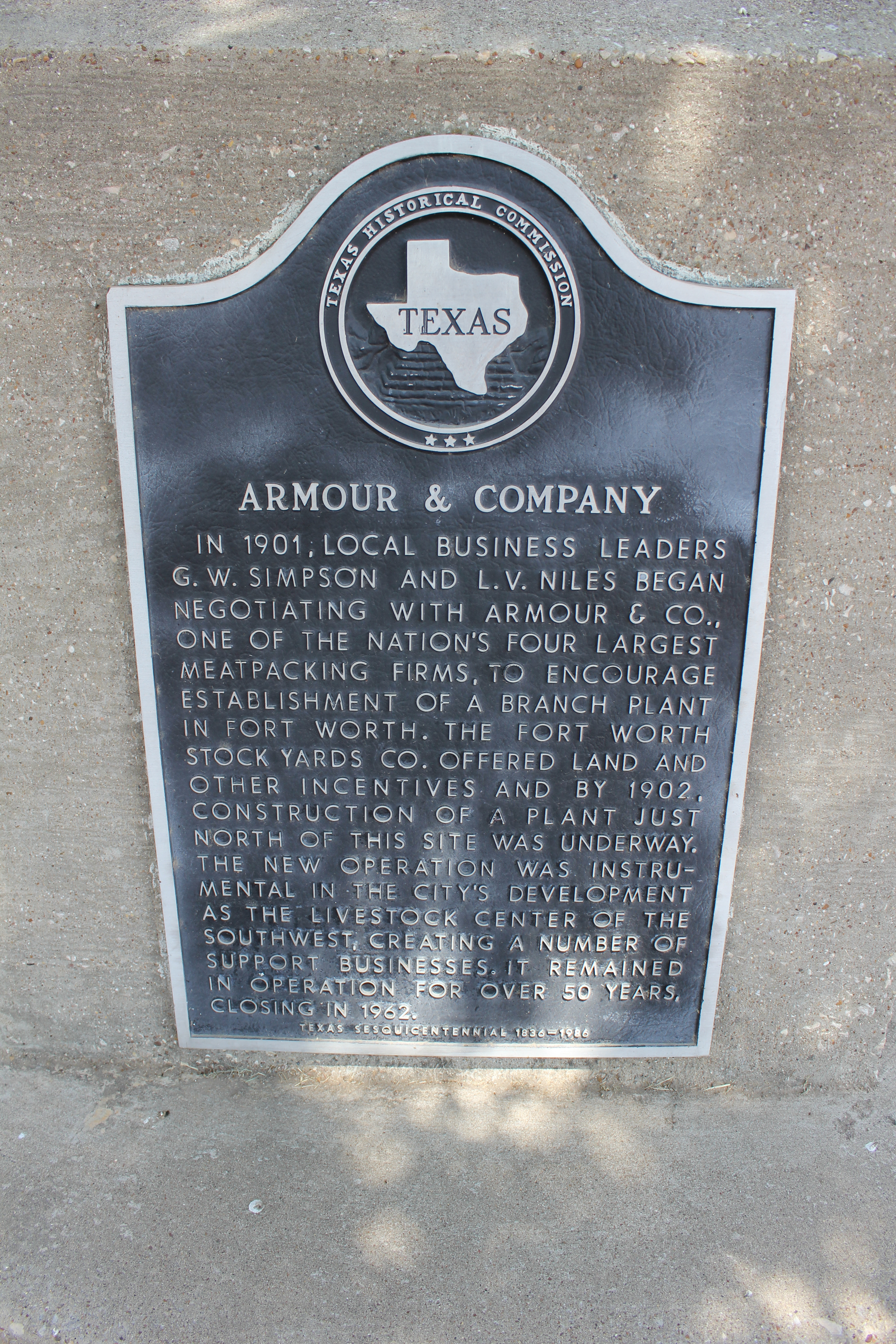 In 1901, local business leaders G. W. Simpson and L. V. Niles began negotiating with Armour & Co. one of the nation' four largest meatpacking firms, to encourage establishment of a branch plant in Fort Worth. The Fort Worth Stock Yards Co. offered land and other incentives and by 1902, construction of a plant just north of this site was underway. The new operation was instrumental in the city's development as the livestock center of the Southwest, creating a number of support businesses. It remained in operation for over 50 years, closing in 1962. Texas Sesquicentennial 1836-1986